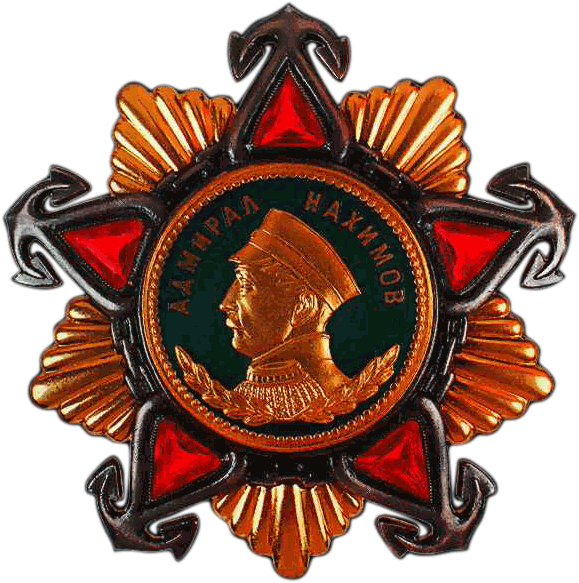 Official Design of Order of Nakhimov Downloaded from